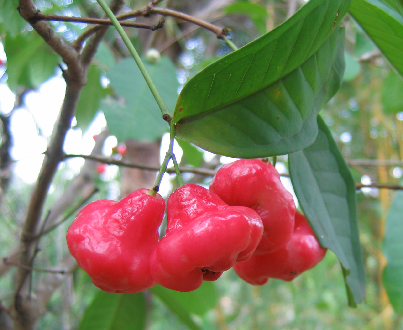 Syzygium aqueum - ചാമ്പങ്ങ